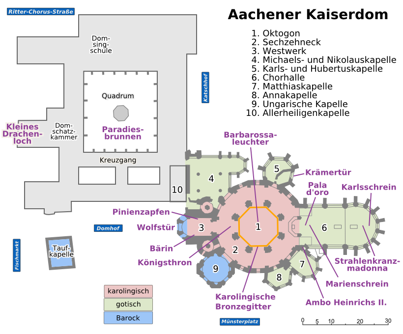 Floor plan of the Palatine Chapel in Aachen and its most famous exhibits.